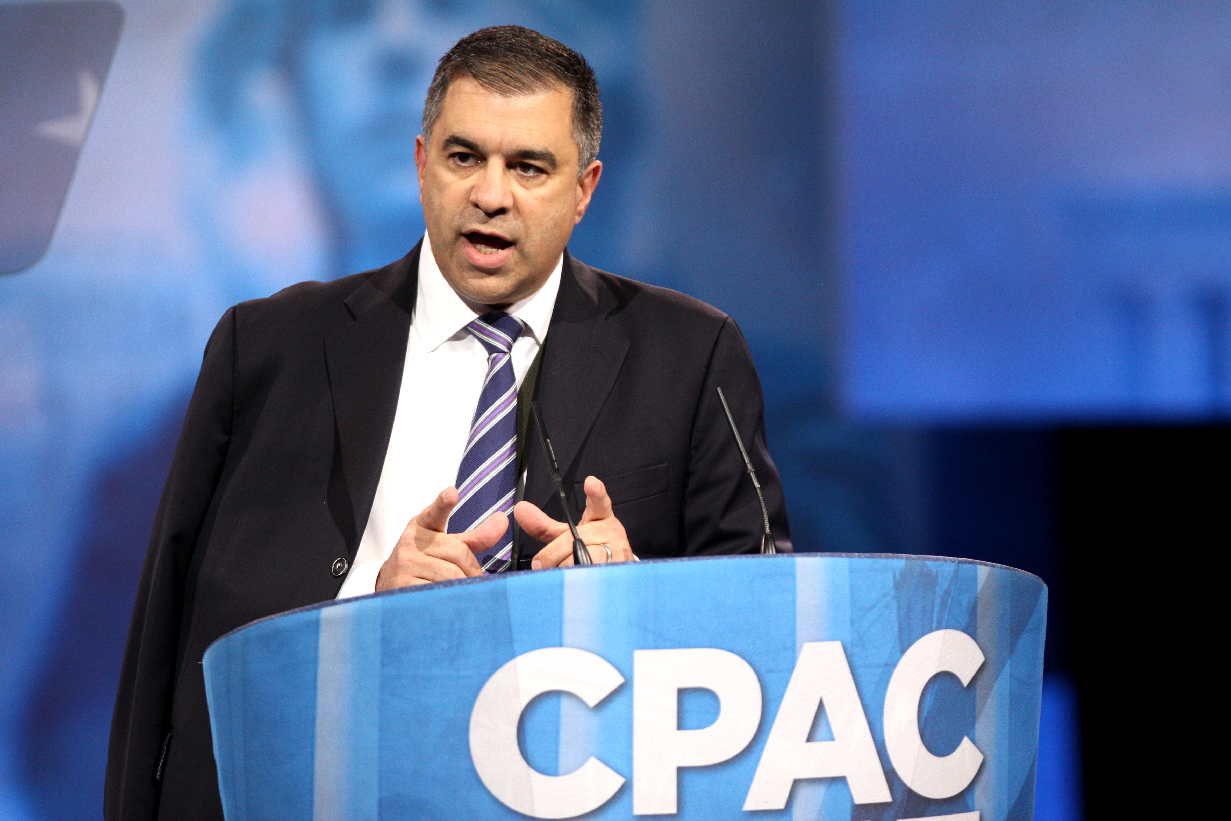 David Bossie speaking at the 2013 CPAC in Washington, D.C.